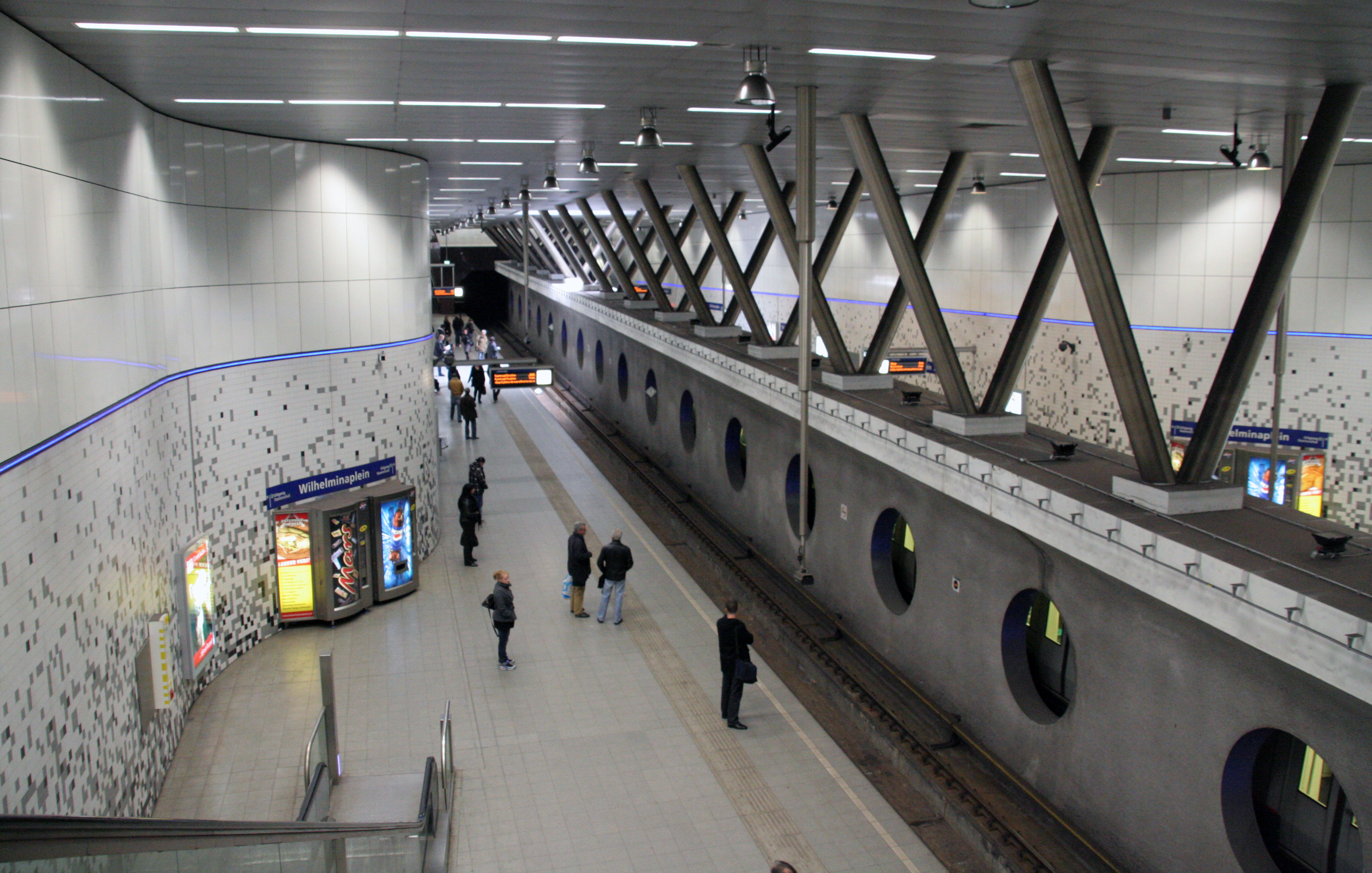 Metrostation Wilhelminaplein